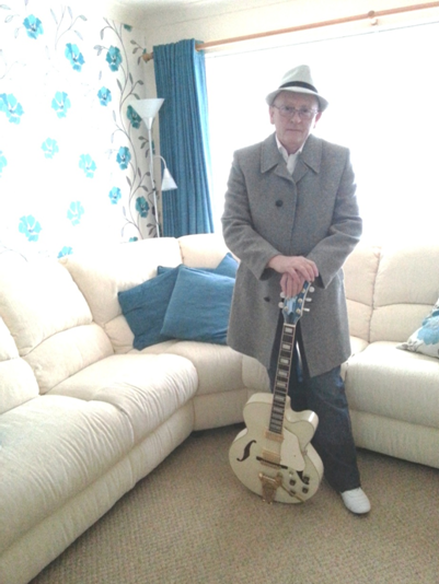 Portrait of English musician, David Hughes, also known as Cousin Silas.